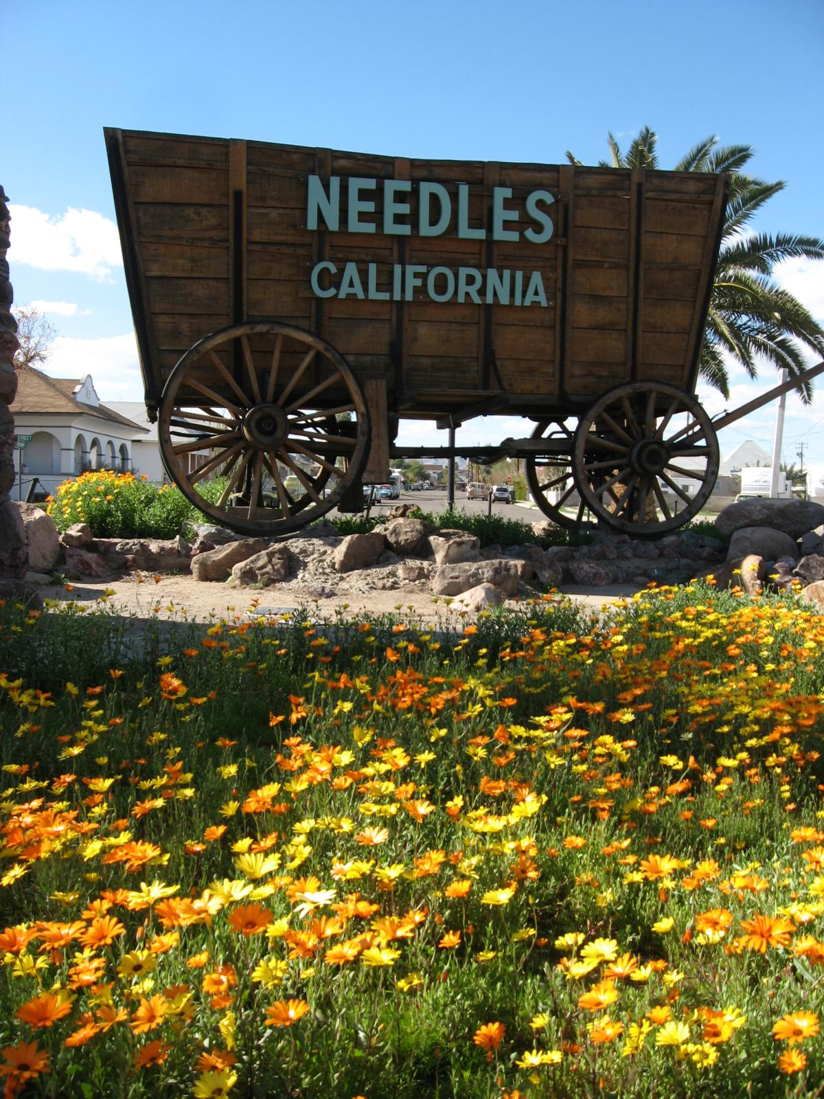 City sign of Needles, California.